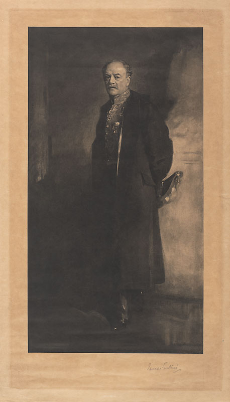 Andrew Murray, 1st Viscount Dunedin (1849-1942)